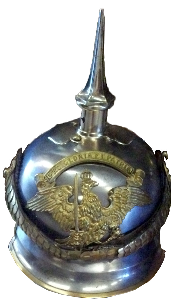 A Pickelhaube helmet of an officer of the Prussian 1st Regiment of Cuirassiers, in a display at the museum of the Fort de la Pompelle, Reims, France